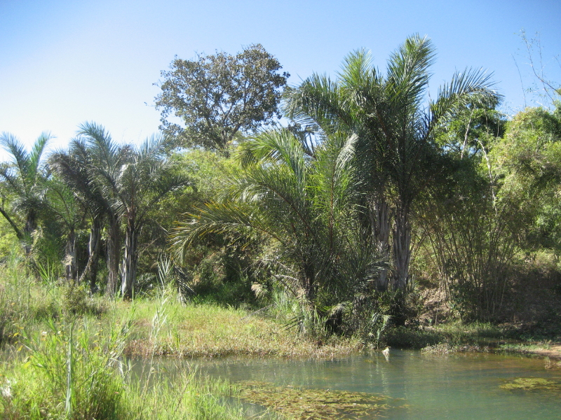 A grove of wild palms (Raphia farinifera) in Barue district of Manica province in Mozambique